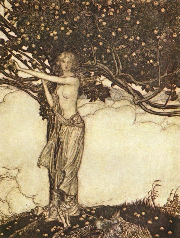 The goddess Freia stands under a tree of apples with her cats by her feet. Note that Wagner's Freia merges the Norse goddesses Freyja and Iðunn. Illustration by Arthur Rackham (1867 - 1939) to Richard Wagner's Das Rheingold